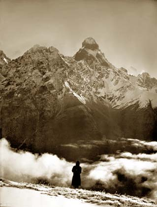 Caucasian photographs by Vittorio Sella. 1889–1890.